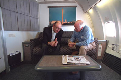 U.S. Fed Chair Alan Greenspan and U.S. Vice President Dick Cheney confer aboard Air Force One